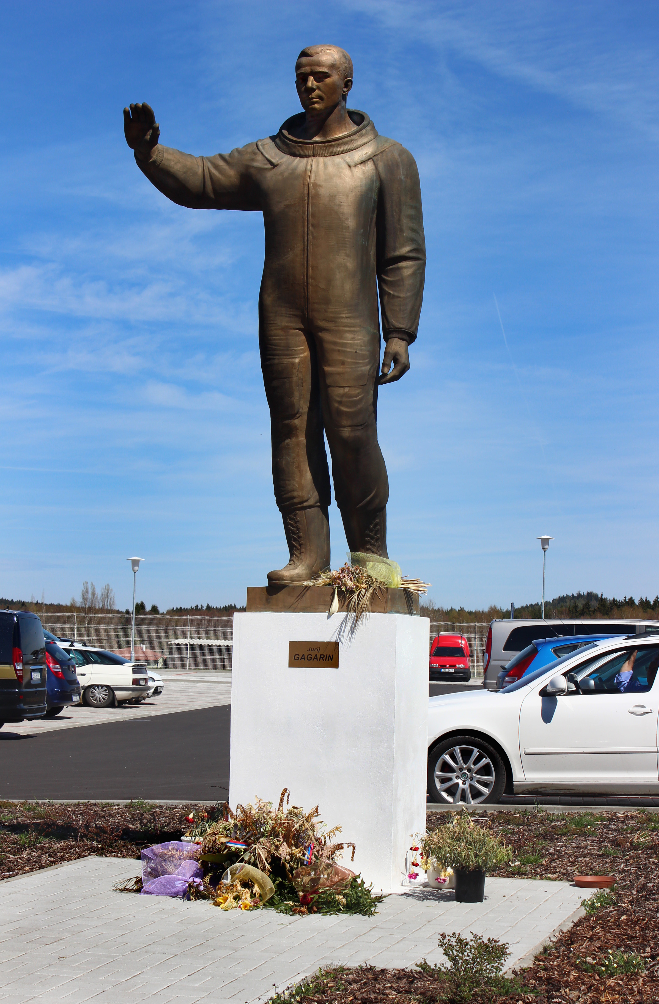 Gagarin statue by Karlovy Vary Airport, Czech Republic